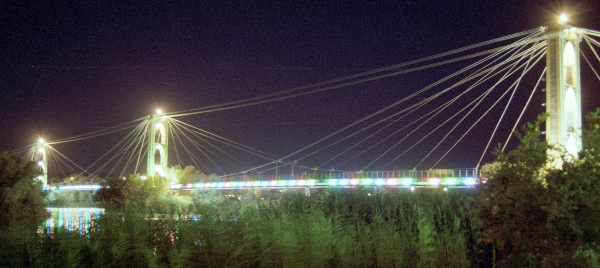 The Deir ez-Zor suspension bridge at night. A 1927 suspension bridge crossing the Euphrates River in the city of Deir ez-Zor in north-eastern Syria.